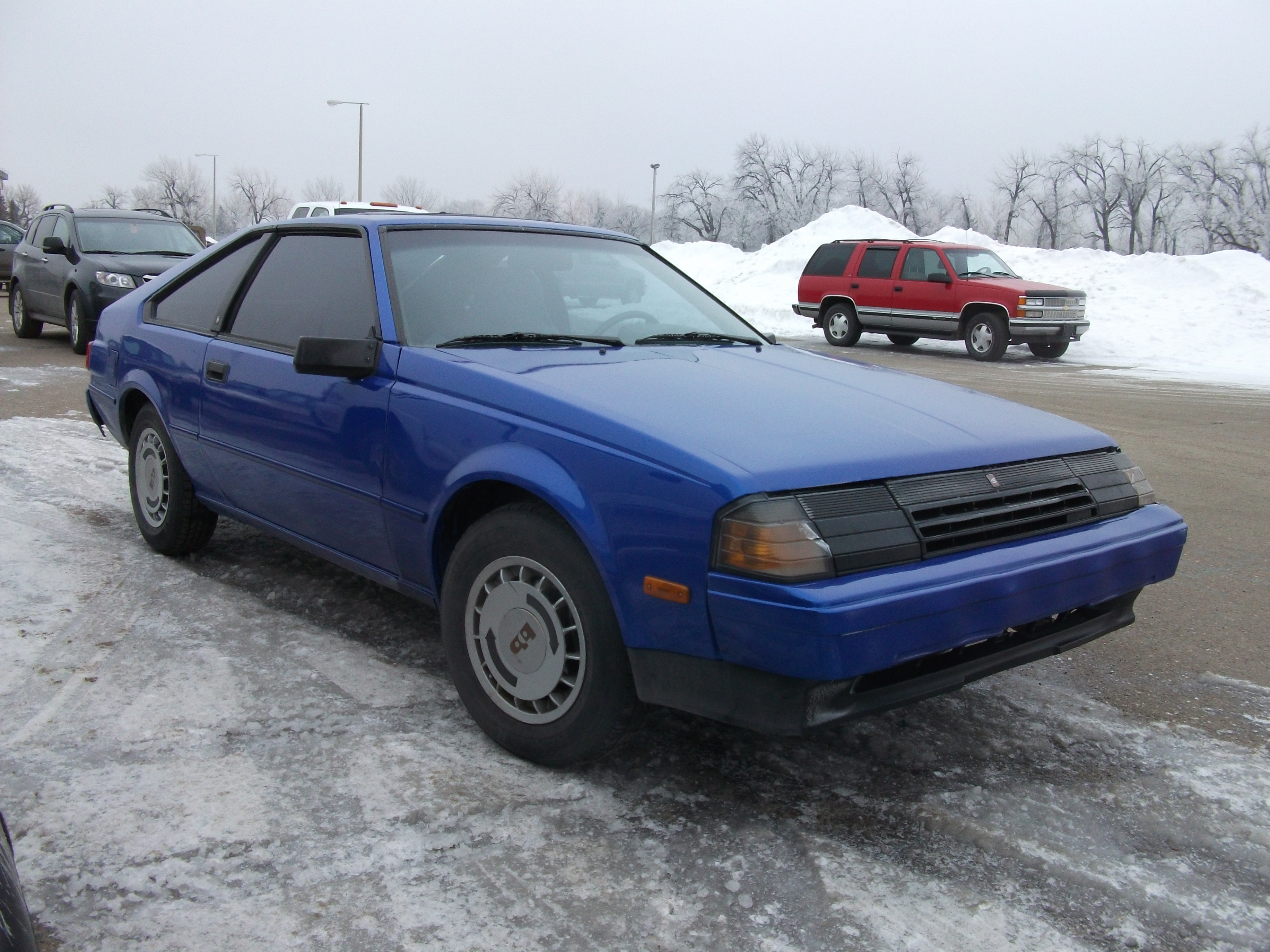 1984-1985 Toyota Celica GT Liftback (RA64) with interesting wheels and newer paint.